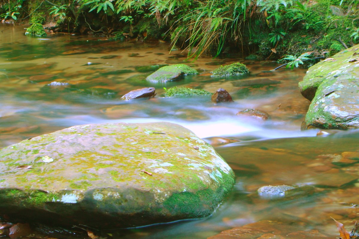 A stream in the Royal National Park